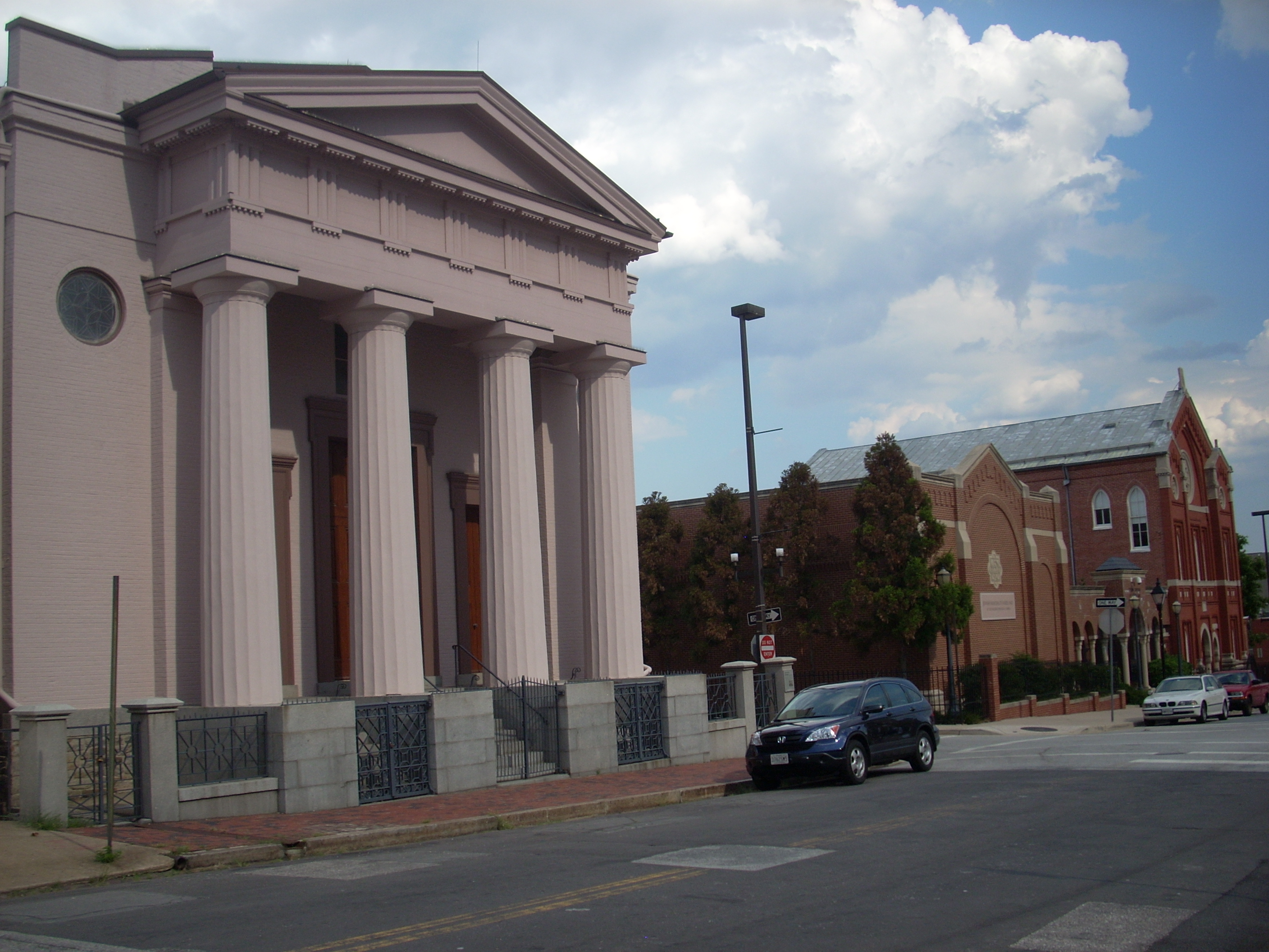 Jewish Museum of Maryland, Lloyd St., Baltimore City, Maryland Lloyd Street Synagogue on the left and the Chizuk Amuno Synagogue on the far right